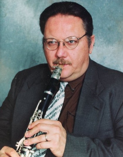 A picture of jazz clarinetist Allan Vache playing the clarinet against a blue background.